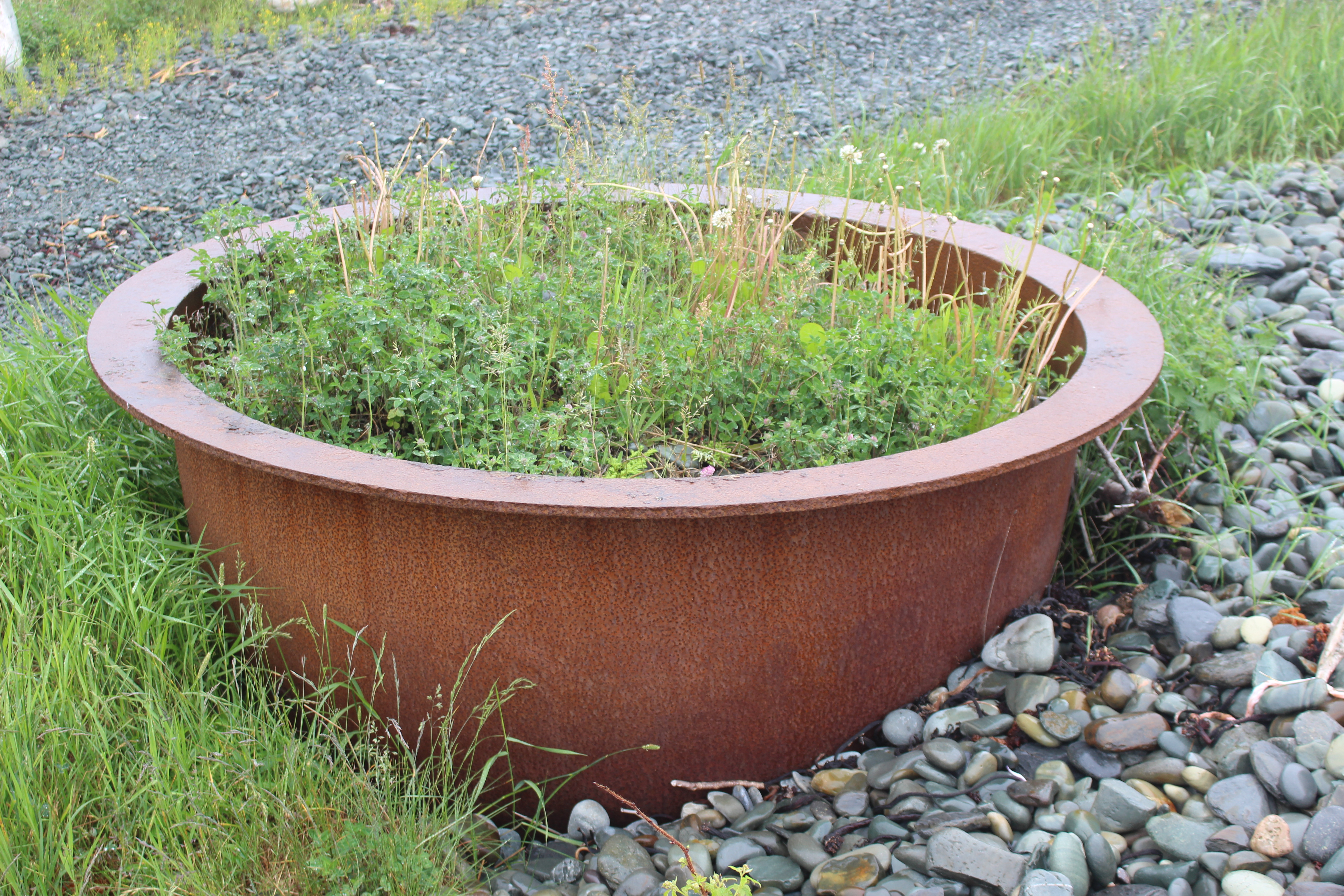 Bark pot on the beach at Ferryland, Newfoundland, taken 2 July 2020, by Dale Gilbert Jarvis